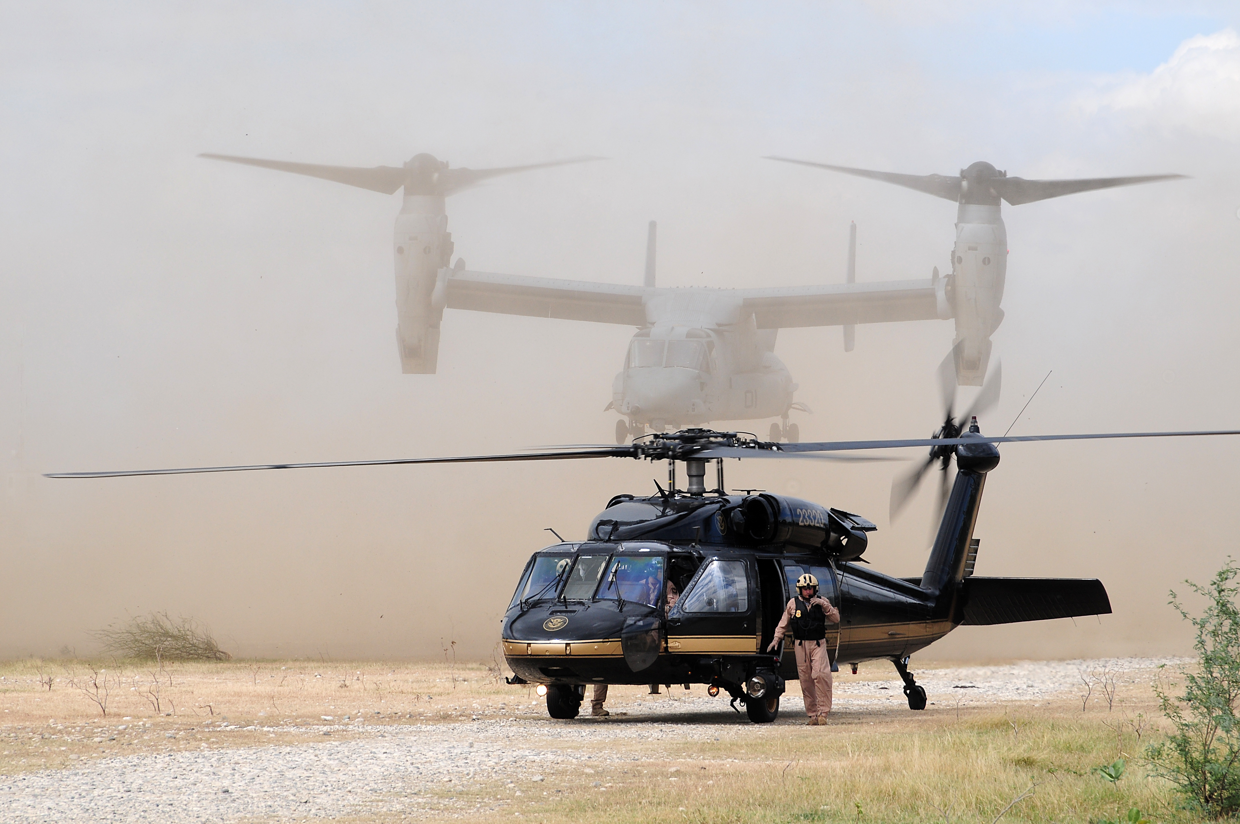 PORT-AU-PRINCE, Haiti (Jan. 26, 2010) A U.S. Customs and Border Patrol helicopter awaits passengers as a Navy MV-22 Osprey tilt-rotor aircraft lands in the background near the U.S. Embassy in Port-au-Prince, Haiti. The U.S. military is conducting humanitarian and disaster relief operations as part of Operation Unified Response after a 7.0 magnitude earthquake caused severe damage in Haiti Jan. 12. (U.S. Navy photo by Mass Communication Specialist 2nd Class Candice Villarreal/Released)